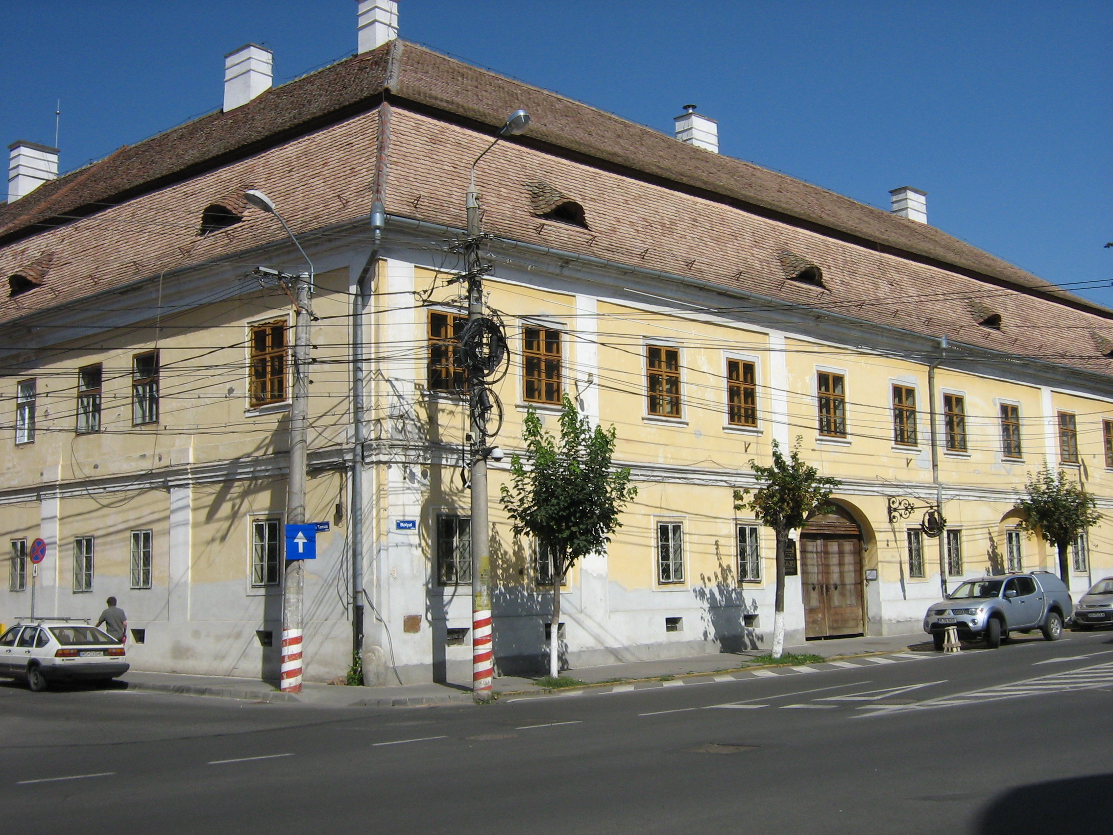 The Teleki Library in Targu Mures